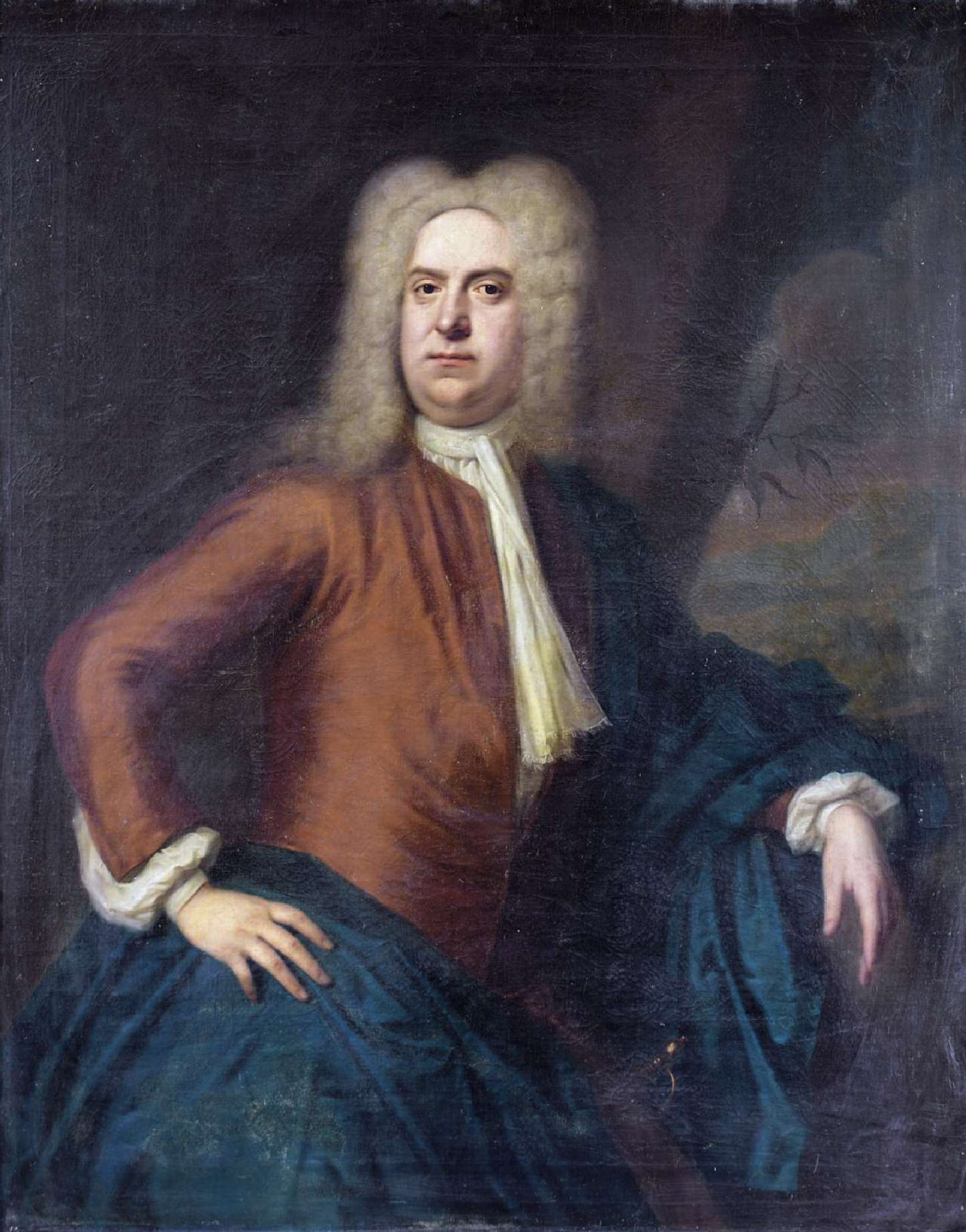 Thomas, 1st Baron Southwell of Castle Mattres (ca 1665-1720) oil on canvas 126 x 101 cm